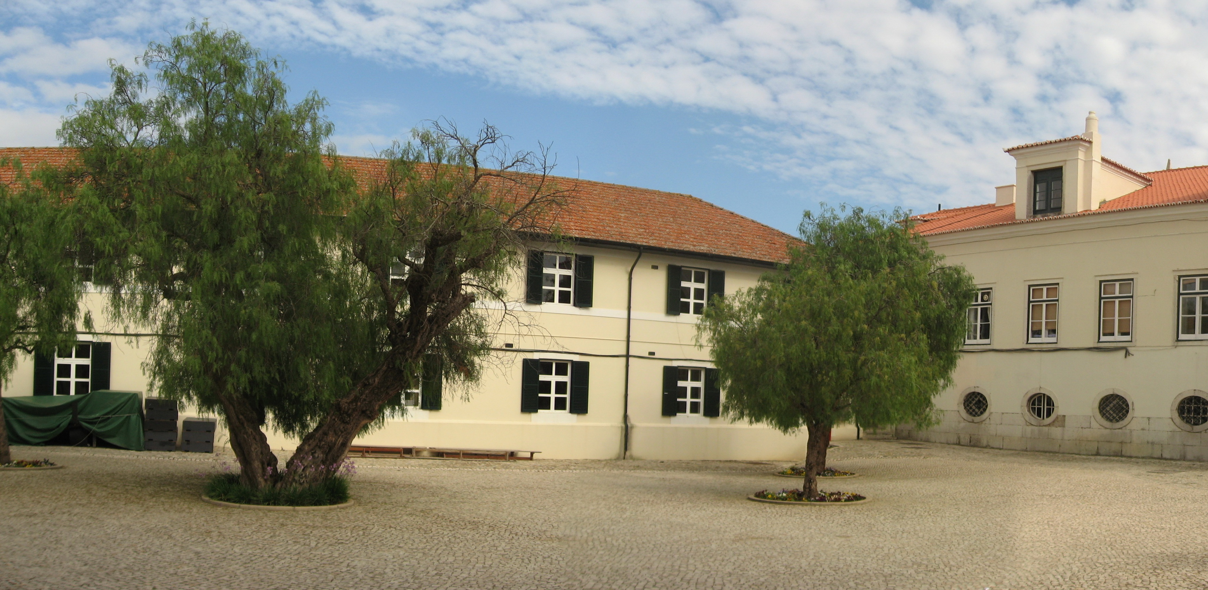 Pátio Interior St. Julian's School, Carcavelos